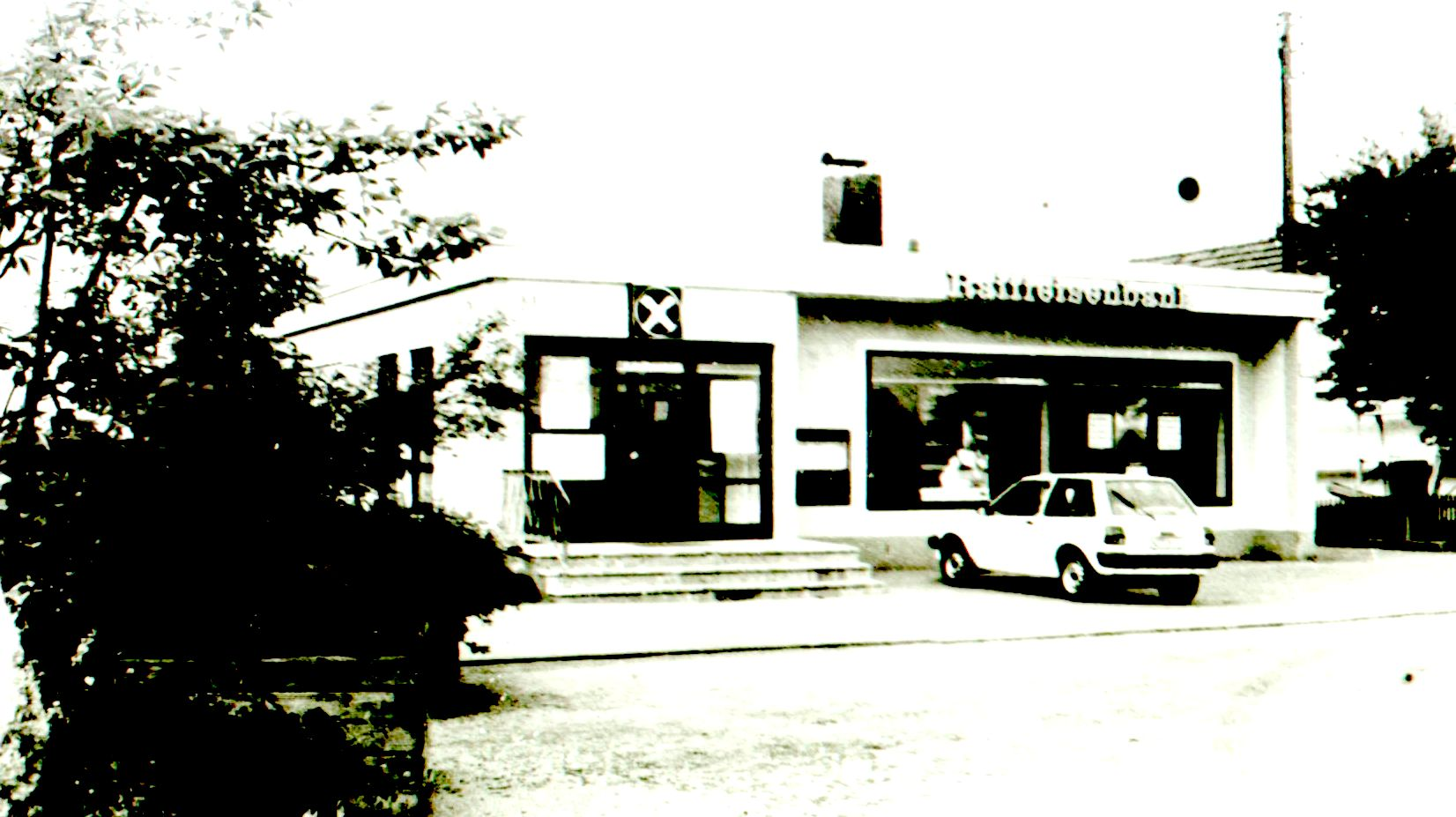 Die Raiffeisenzweigstelle Marienheim im Rodenhof